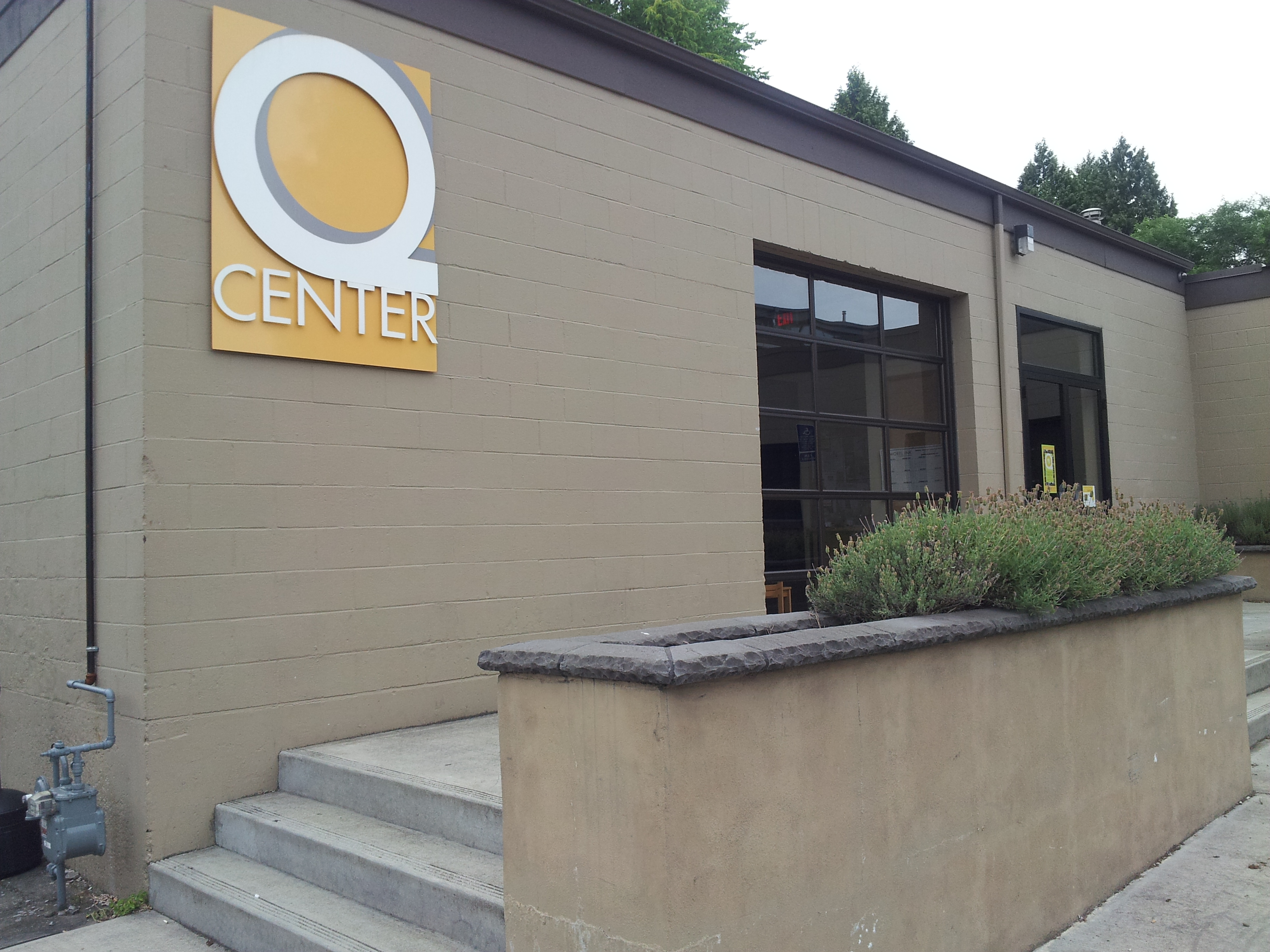 Q Center, Portland, Oregon (2014)